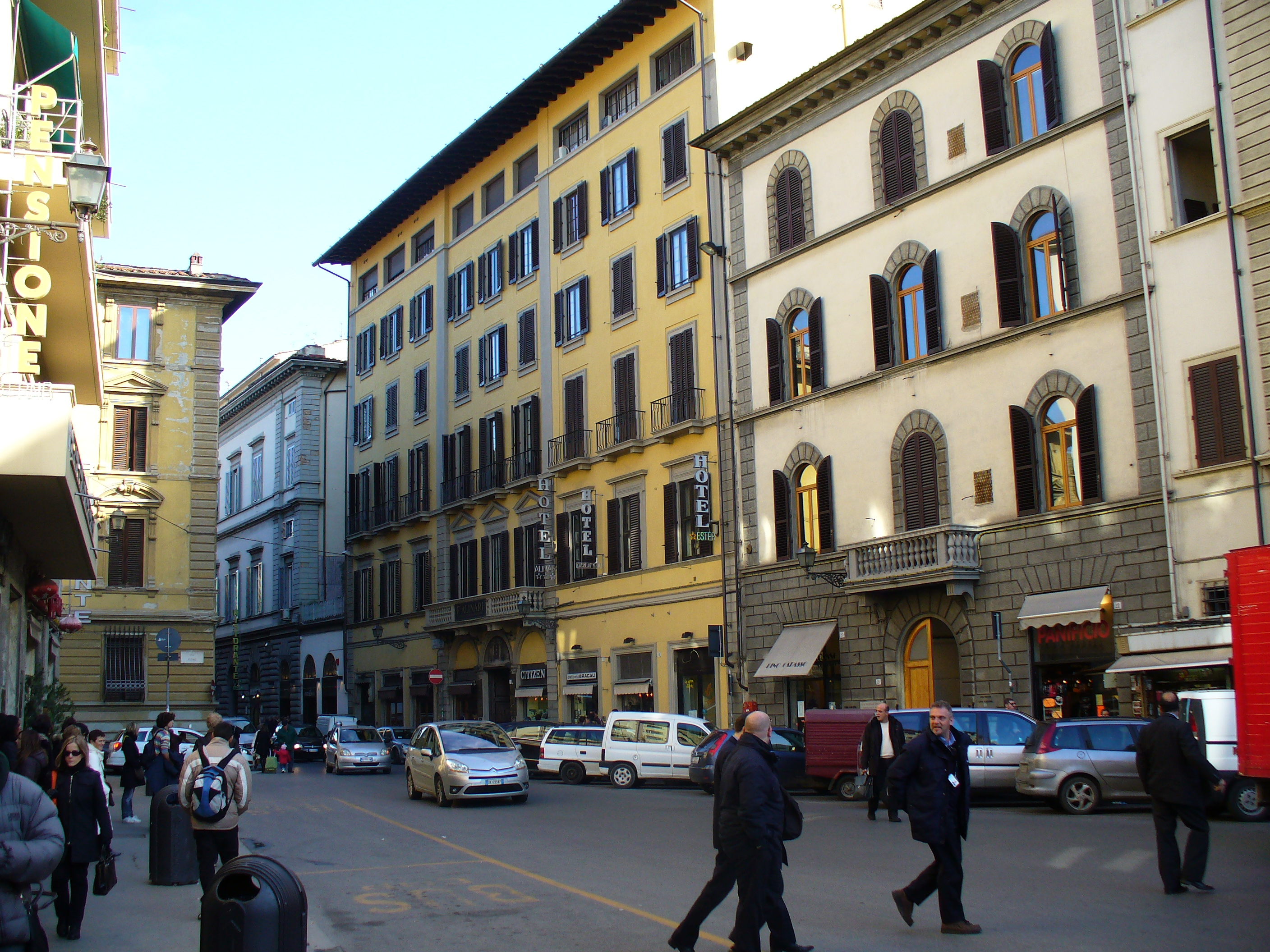 Largo Alinari (Florence)